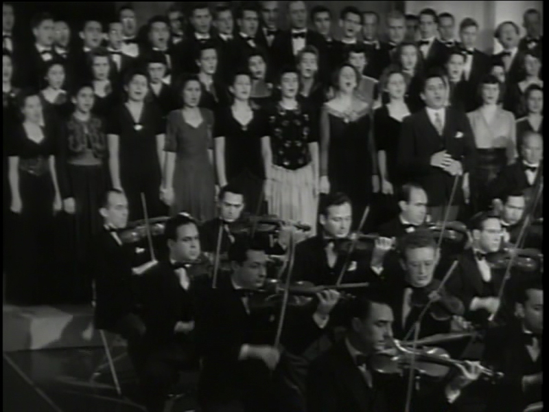 Jan Peerce and Westminster Choir from "Hymn of the Nations". And playing the "Inno delle nazioni"